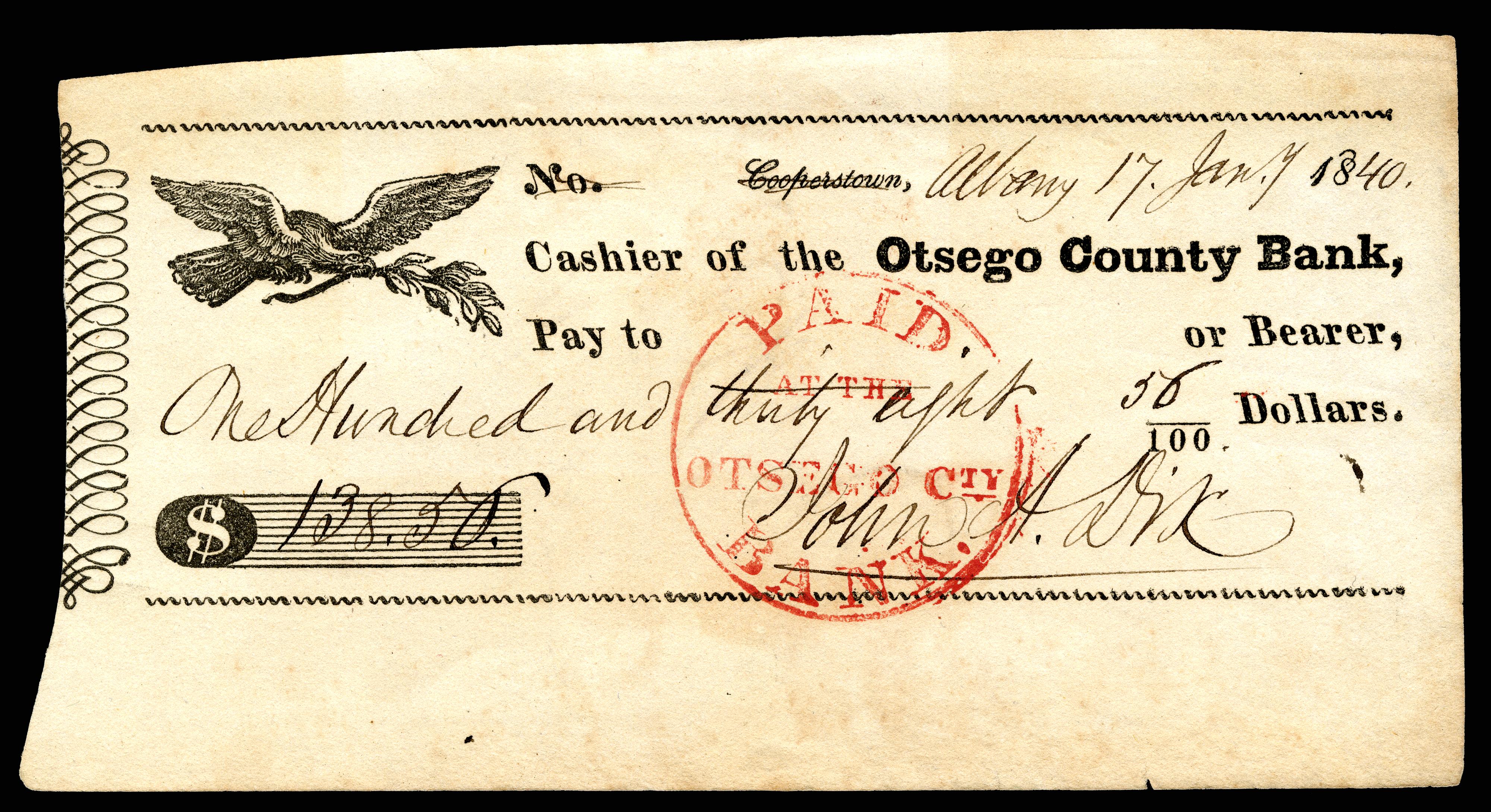 John Adams Dix (signed check)